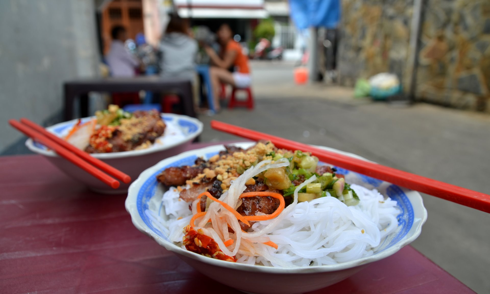 Bún thịt nướng is made by placing fresh but cold rice vermicelli on top of a salad made with chopped fresh vegetables and some ground red chillies. The whole is topped by sweet barbecued pork, ground peanuts and some finely chopped pickled vegetables. Image taken on a street in District 1 of Ho Chi Minh City.